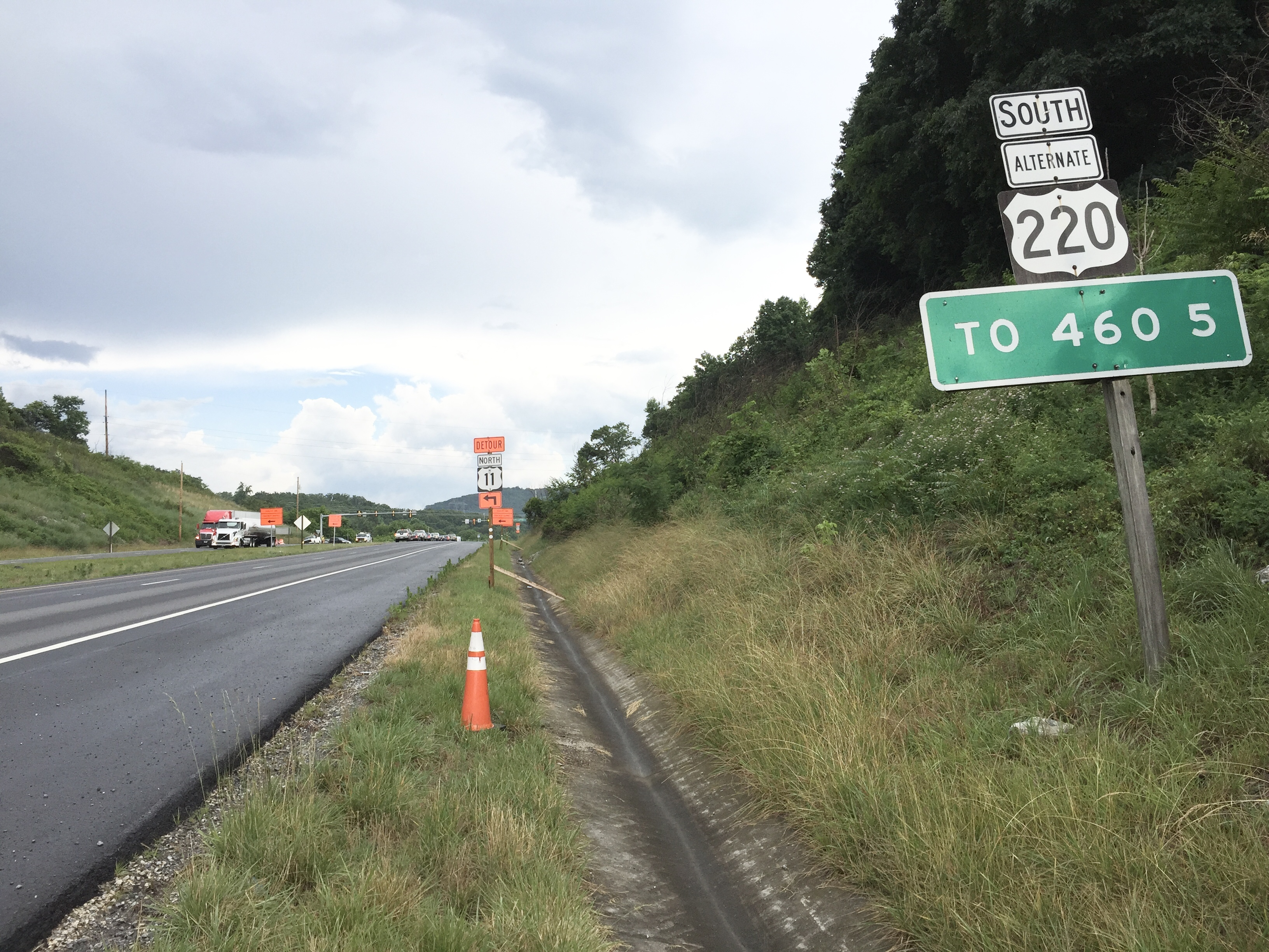 View south along U.S. Route 220 Alternate (Cloverdale Road) just south of U.S. Route 11 (Lee Highway) in southern Botetourt County, Virginia